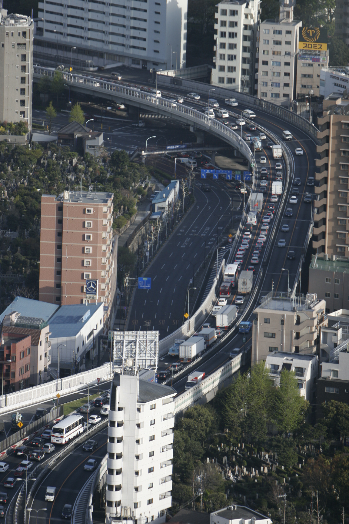 Route 5 of the Shuto Expressway, near Gokoku-ji, Tokyo.See the map.